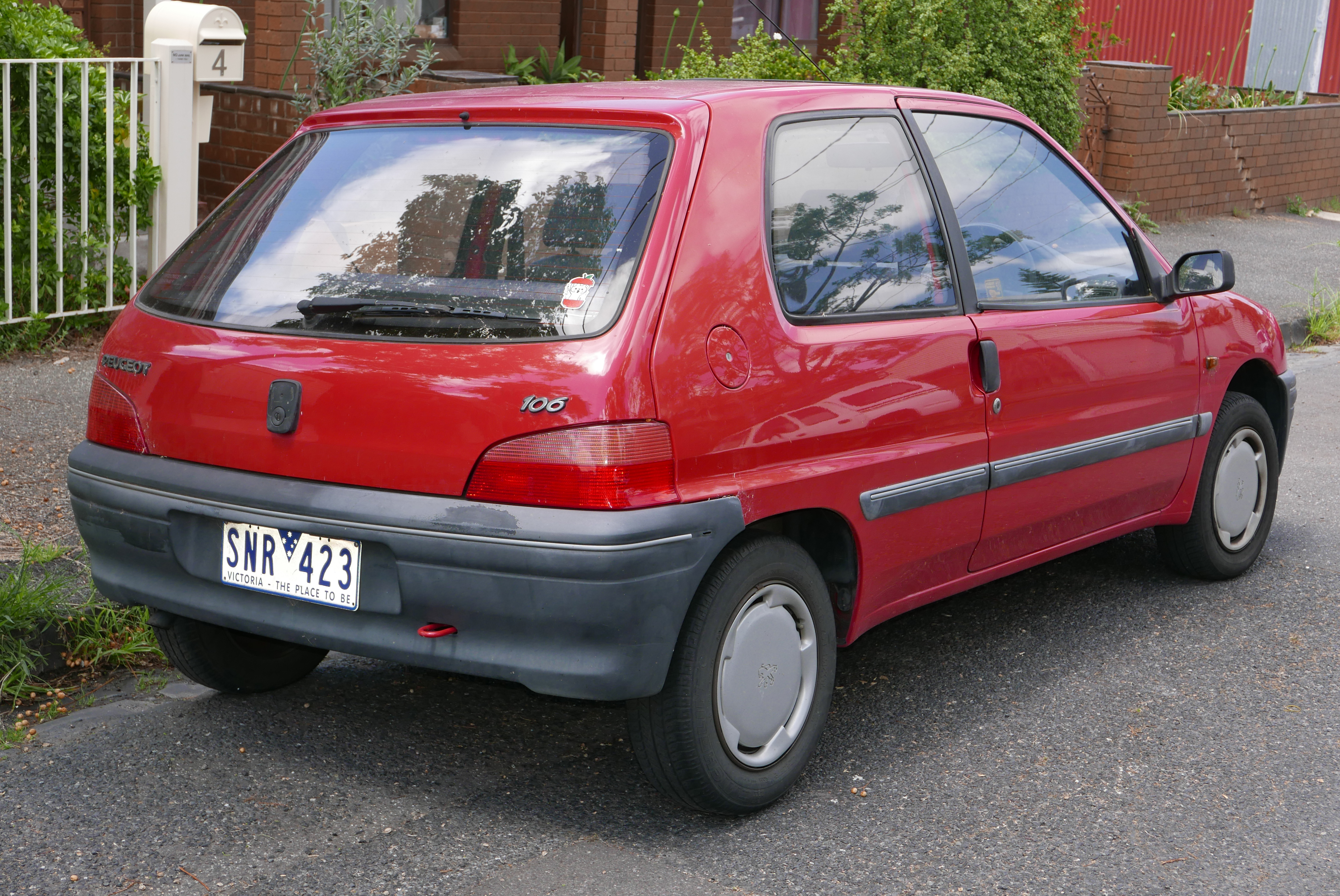 1997 Peugeot 106 XN 1.1 3-door hatchback. This is a grey import from the United Kingdom, complianced for Australia in September 2003. Photographed in Brunswick, Victoria, Australia. Vehicle registration enquiry results Jurisdiction Victoria Registration SNR423 Chassis code VF31CHDZE51934819 Engine code 10FP4G2534281 Compliance date 2003-09 Year of manufacture 1997 (not a typo)